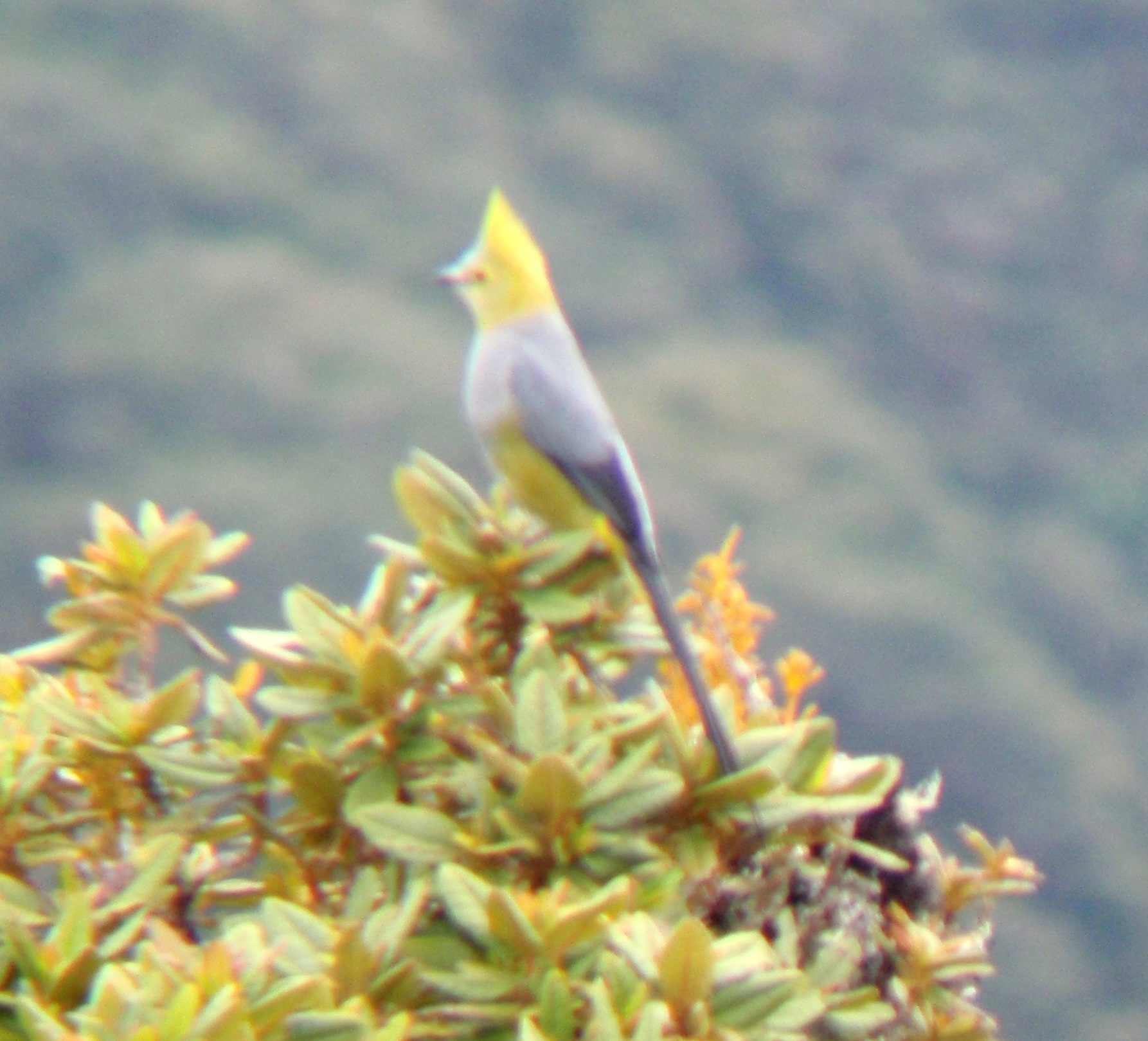 A Long-tailed Silky-flycatcher on Cerro de la Muerte, Costa Rica.